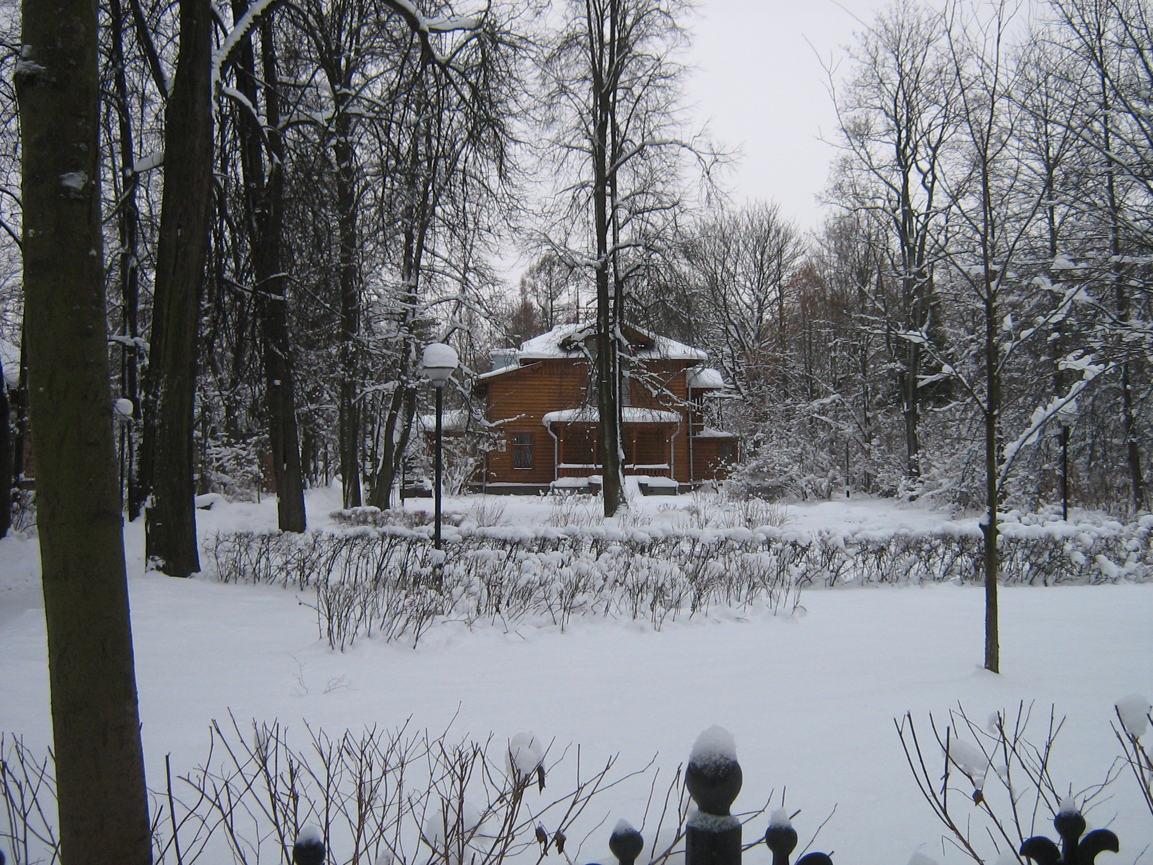 Saint Petersburg (Russia), town Pushkin.